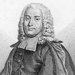 Engraved portrait of Charles Cotin (1604-1681).